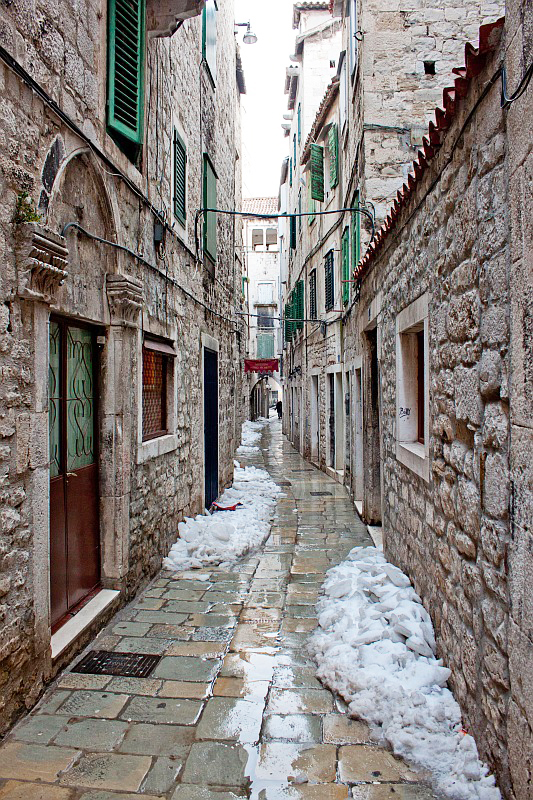 Diocletian's Palace street